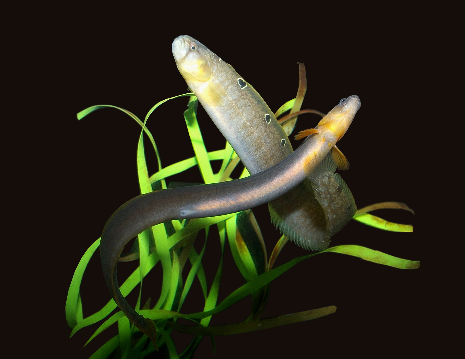 butterfish (Pholis gunnellus)